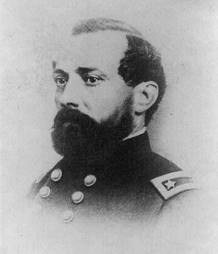 Reno, Jesse Lee, 1823-1862